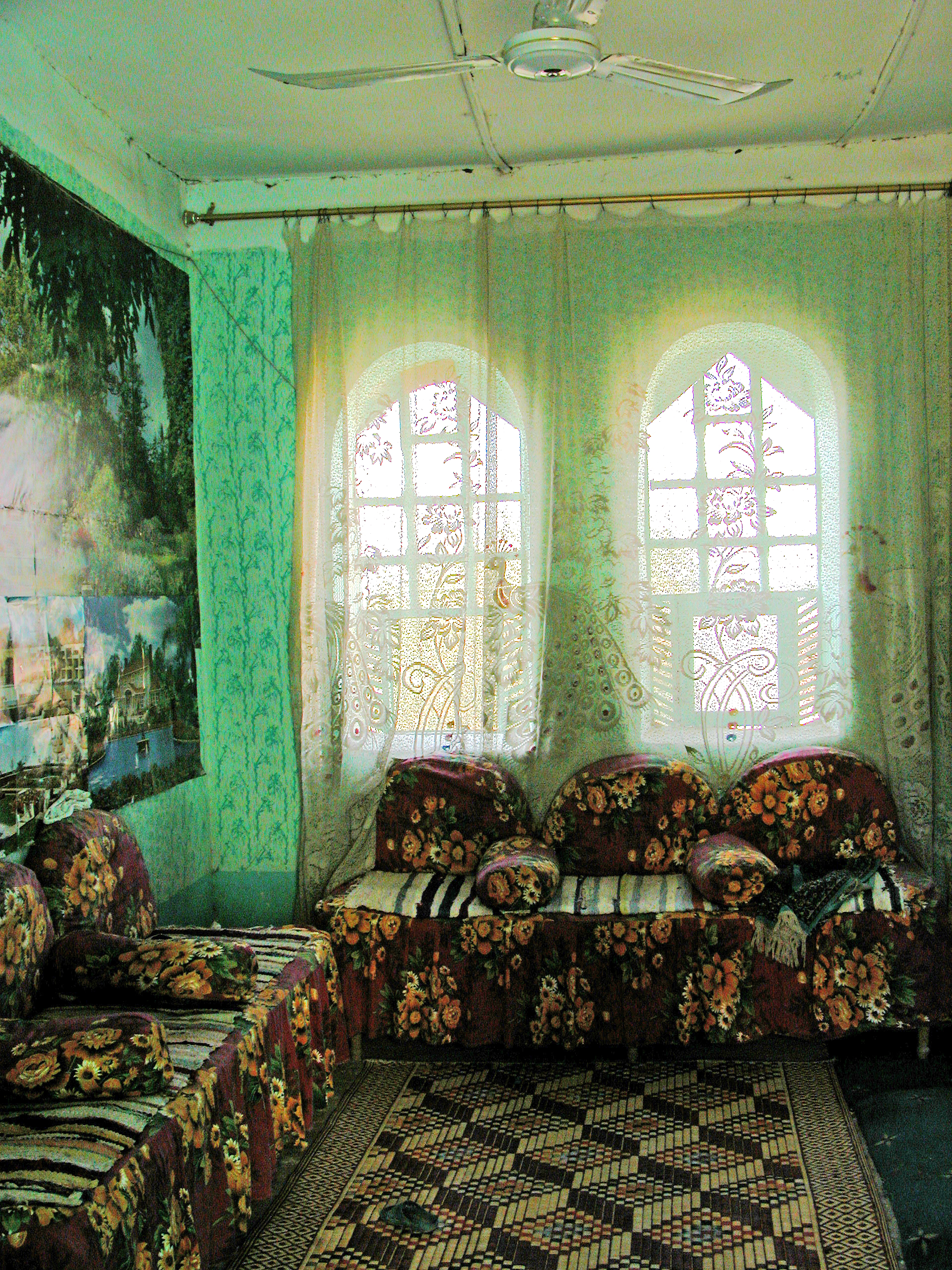 Sitting area in a persons house. Valley of the Kings, Egypt